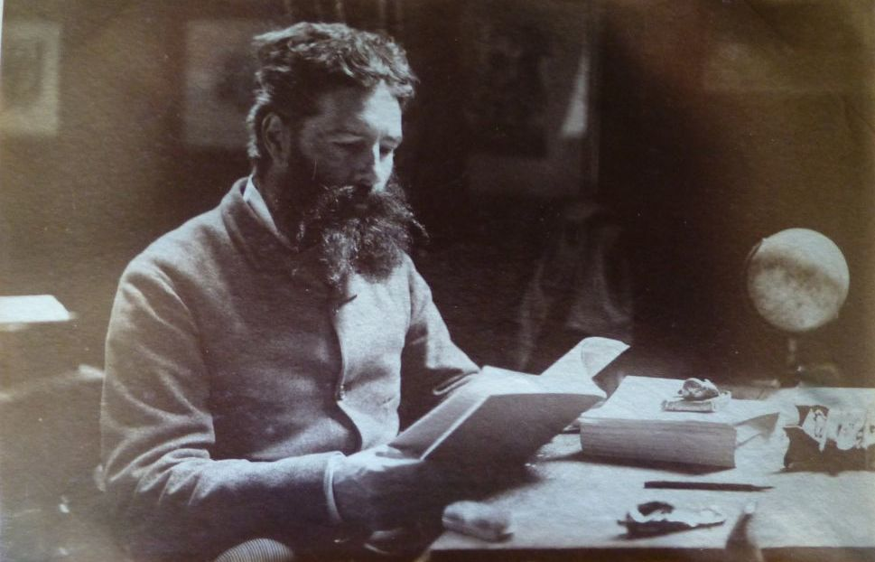 The photograph was taken in 1886-7, probably by A.K. Syer. Collingridge was among the artists and engravers who worked on The Picturesque Atlas of Australasia. The photograph is in the Yale Art Gallery's Print Room.